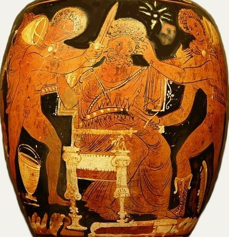 Aegisthus murdered by Orestes and Pylades. Red-figure Apulian oinochoe (wine jug), ca. 430-400 BC.